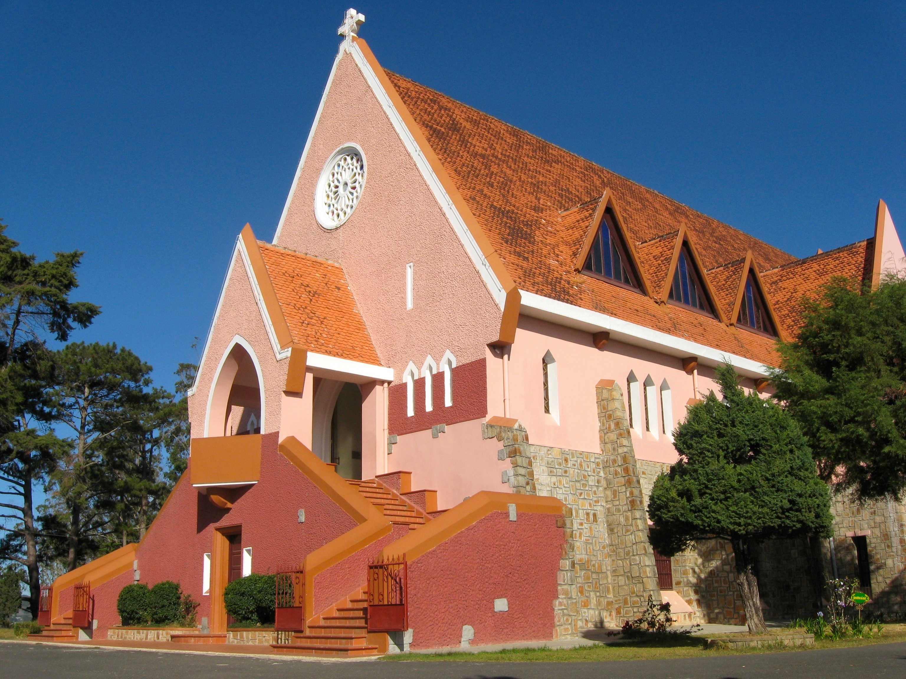 Domaine de Marie, Da Lat